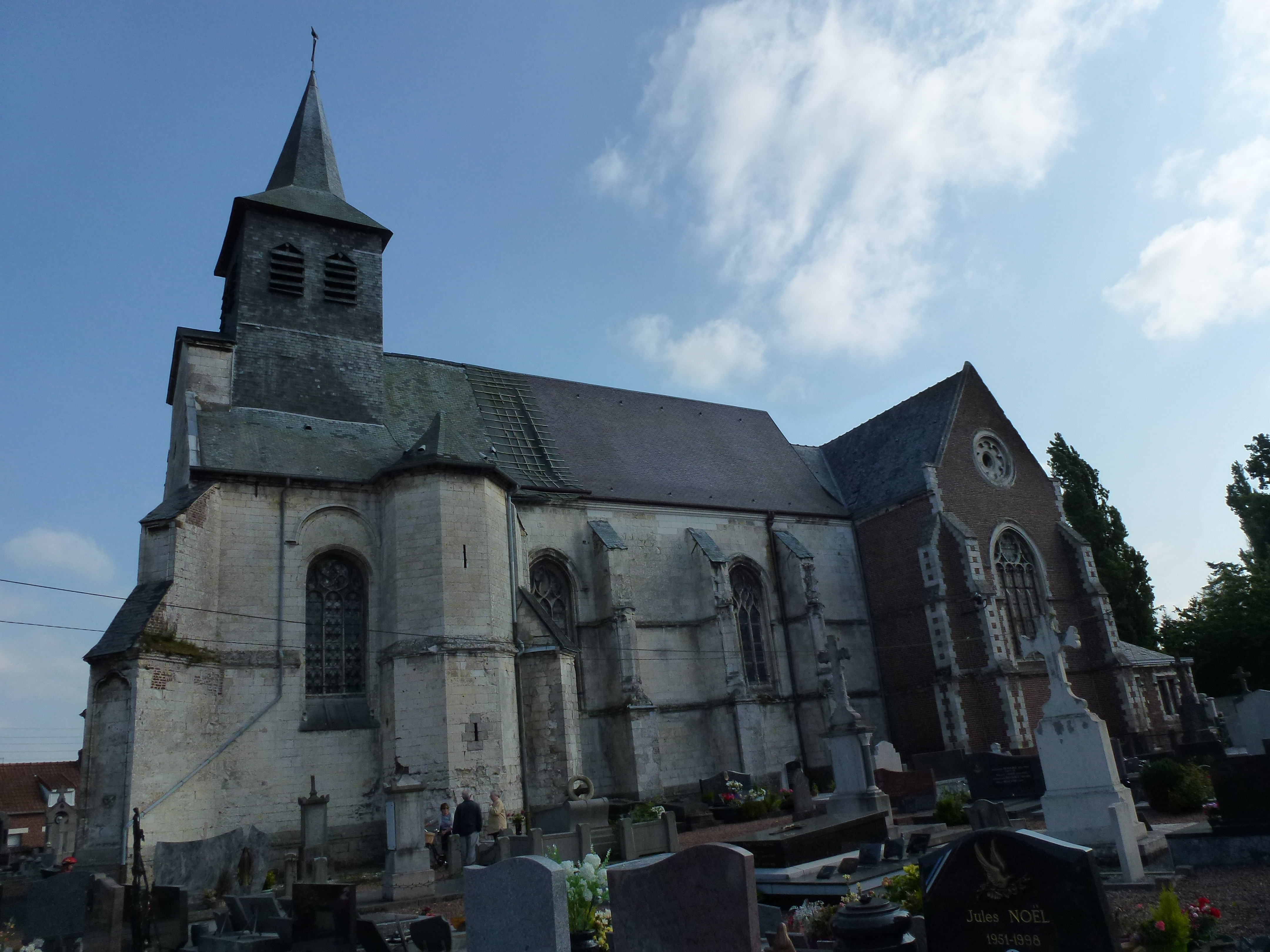 Norrent-Fontes (Pas-de-Calais, Fr) église Saint-Vaast extérieur